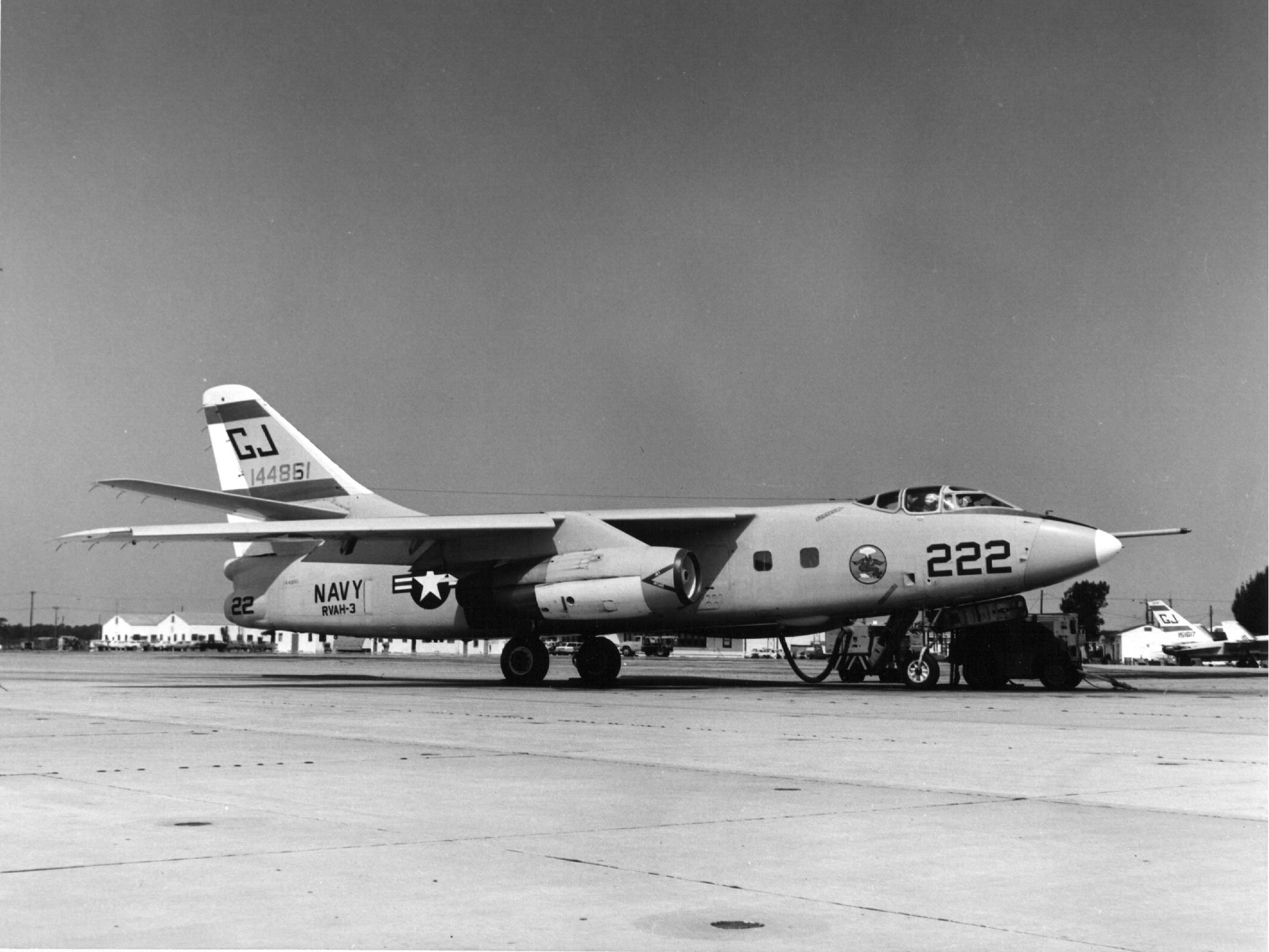 A U.S. Navy Douglas TA-3B Skywarrior (BuNo 144861) of Reconnaissance Heavy Attack Squadron 3 (RVAH-3) on the ground at Naval Air Station Sanford, Florida (USA). This aircraft crashed on 8 August 1973 near NAS Albany, Georgia, after an engine failed due to a hot oil leak. The crew bailed out.